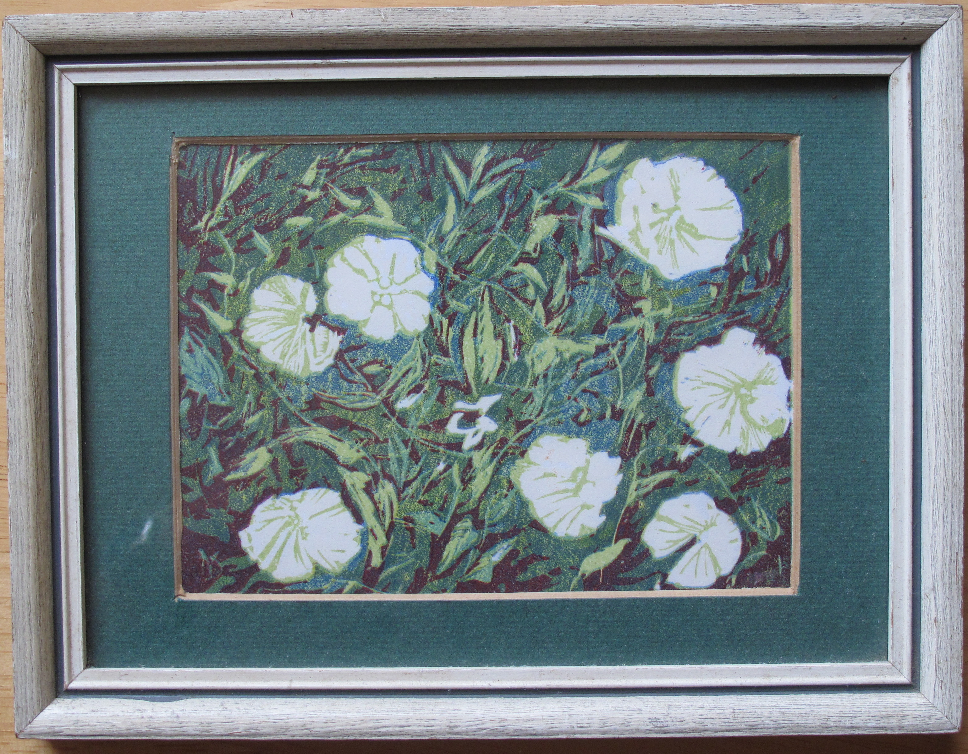 Linocut of convolvulus flowers by Yvonne Drewry, 1975